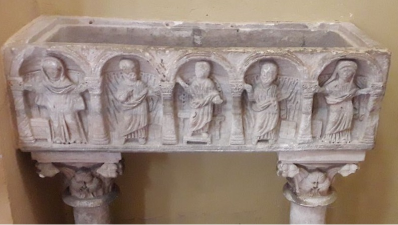 Le sarcophage de Saint-Cannat in the church of Notre-Dame de Vie, Saint-Cannat, V. century